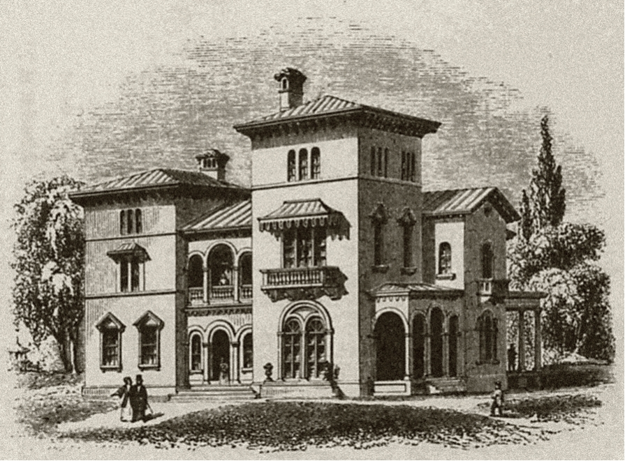 Figure 143, engraving of the Edward King House — in Newport, Rhode Island. 1845 brick Victorian Italianate style mansion, designed by Richard Upjohn.